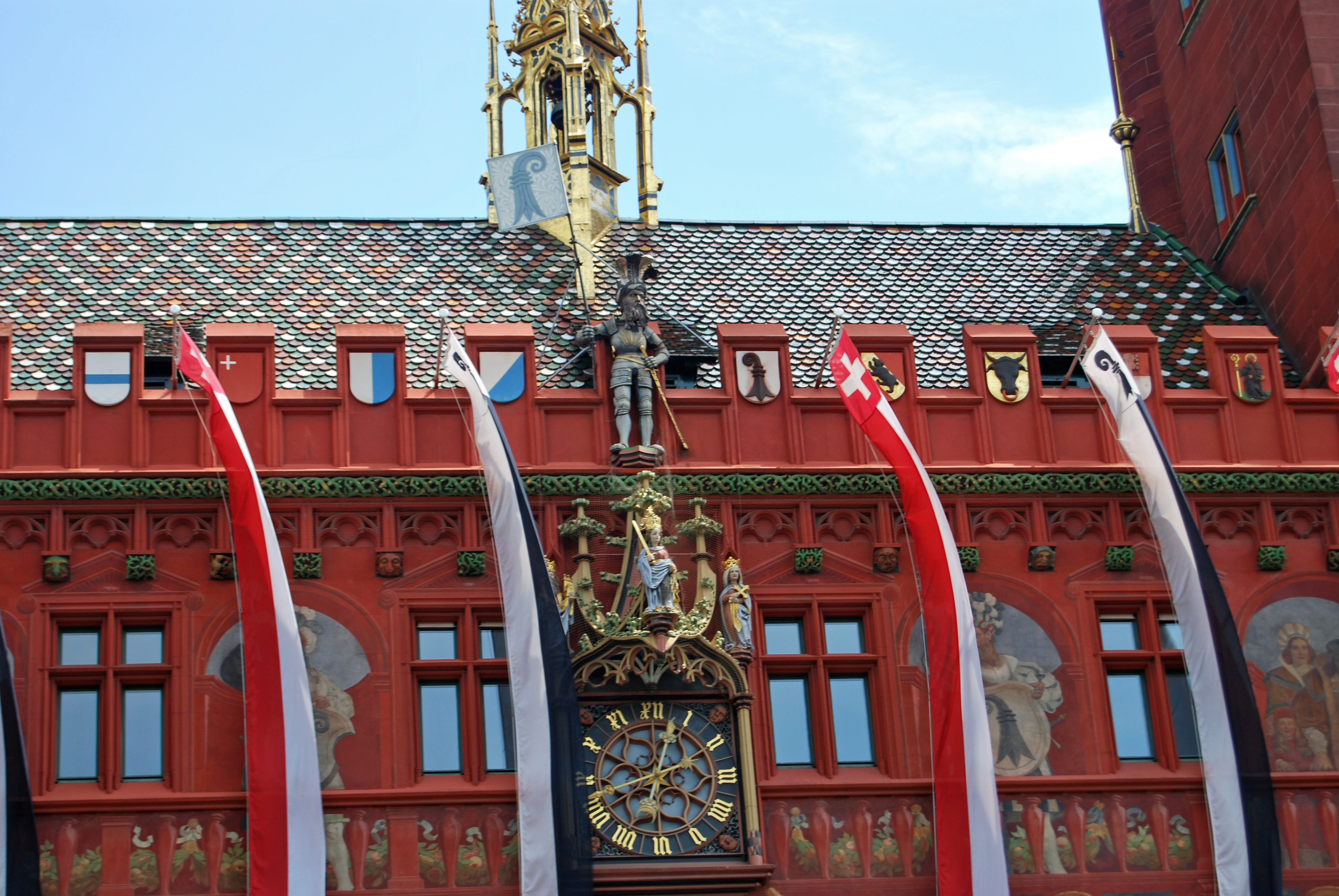 Basel City Hall